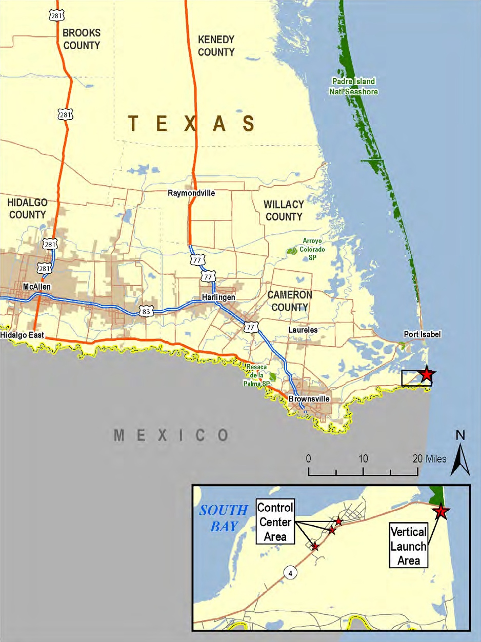 Regional location of the Proposed SpaceX Texas Orbital Launch Site, from the FAA draft EIS, April 2013